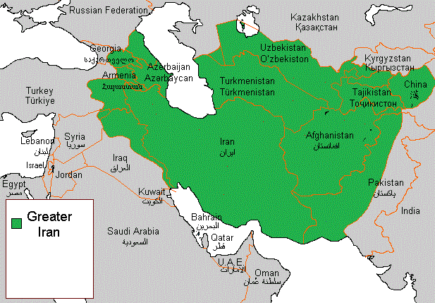 Greater Iran